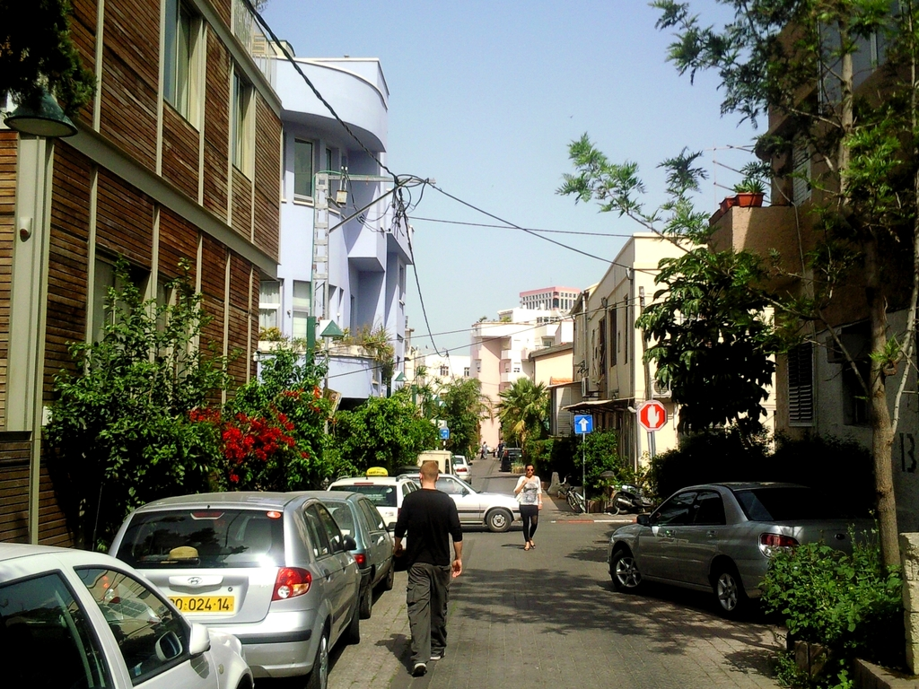 Kerem Hateymanim, a neighborhood in Tel Aviv.